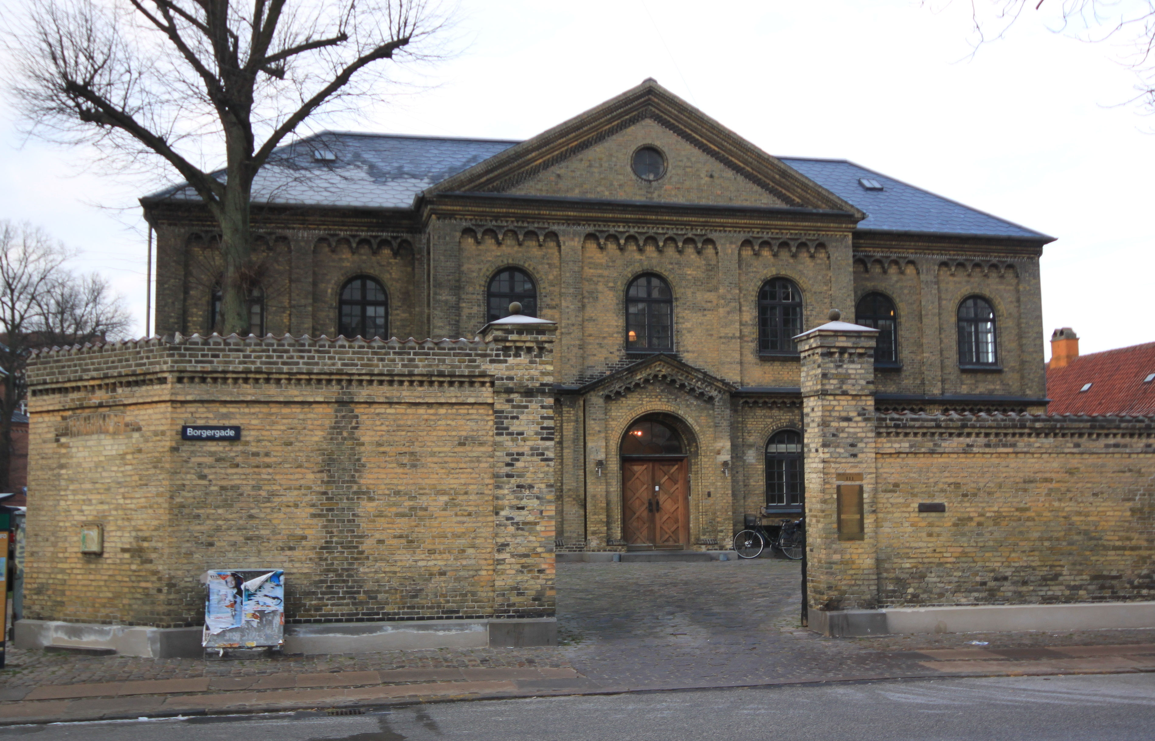 The former Gernersgade Kaserne, now Bygningskulturens Hus photographed on January 26th 2012.